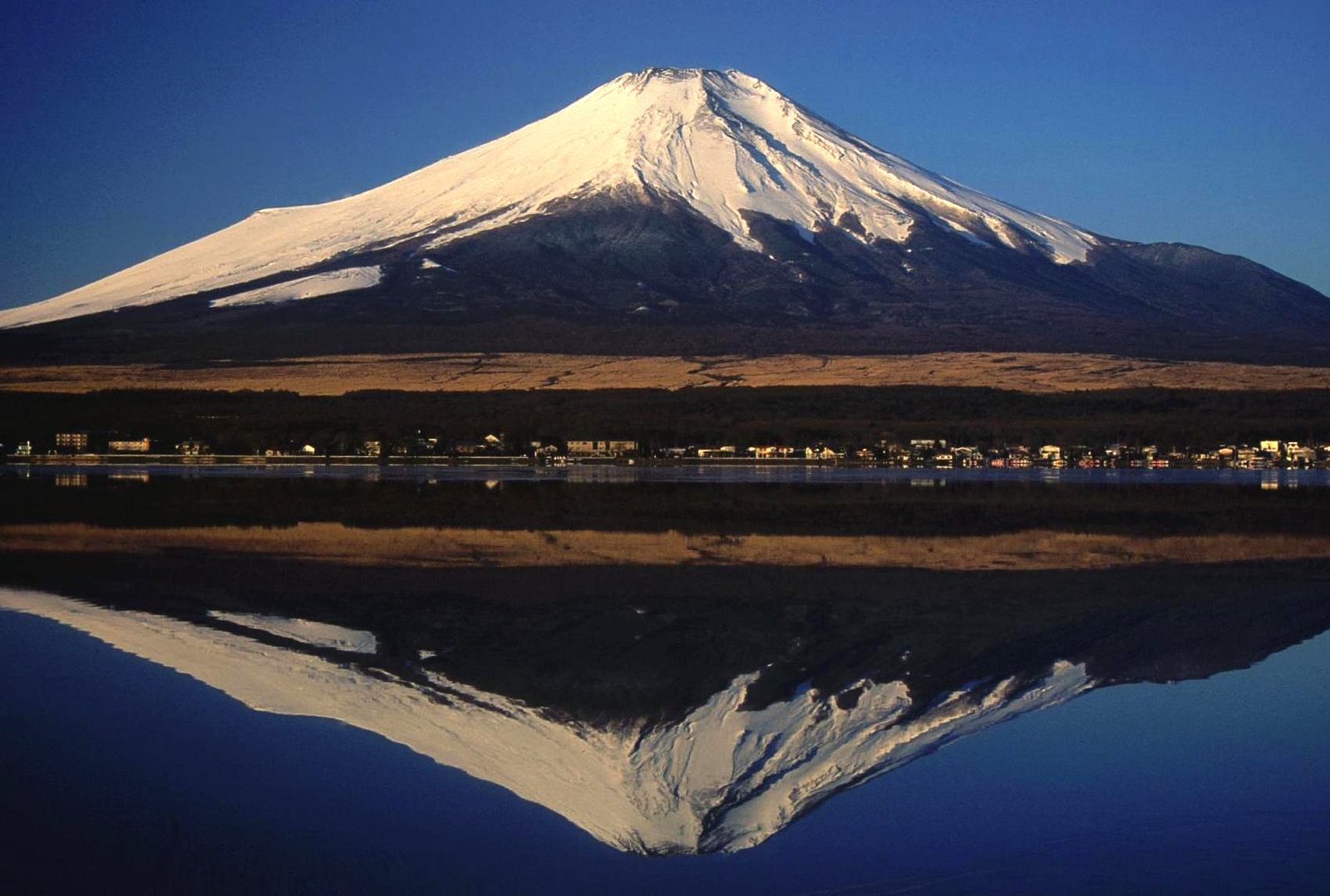 Mount Fuji reflected on Lake Yamanaka, in Yamanakako village, Yamanashi prefecture, Japan.